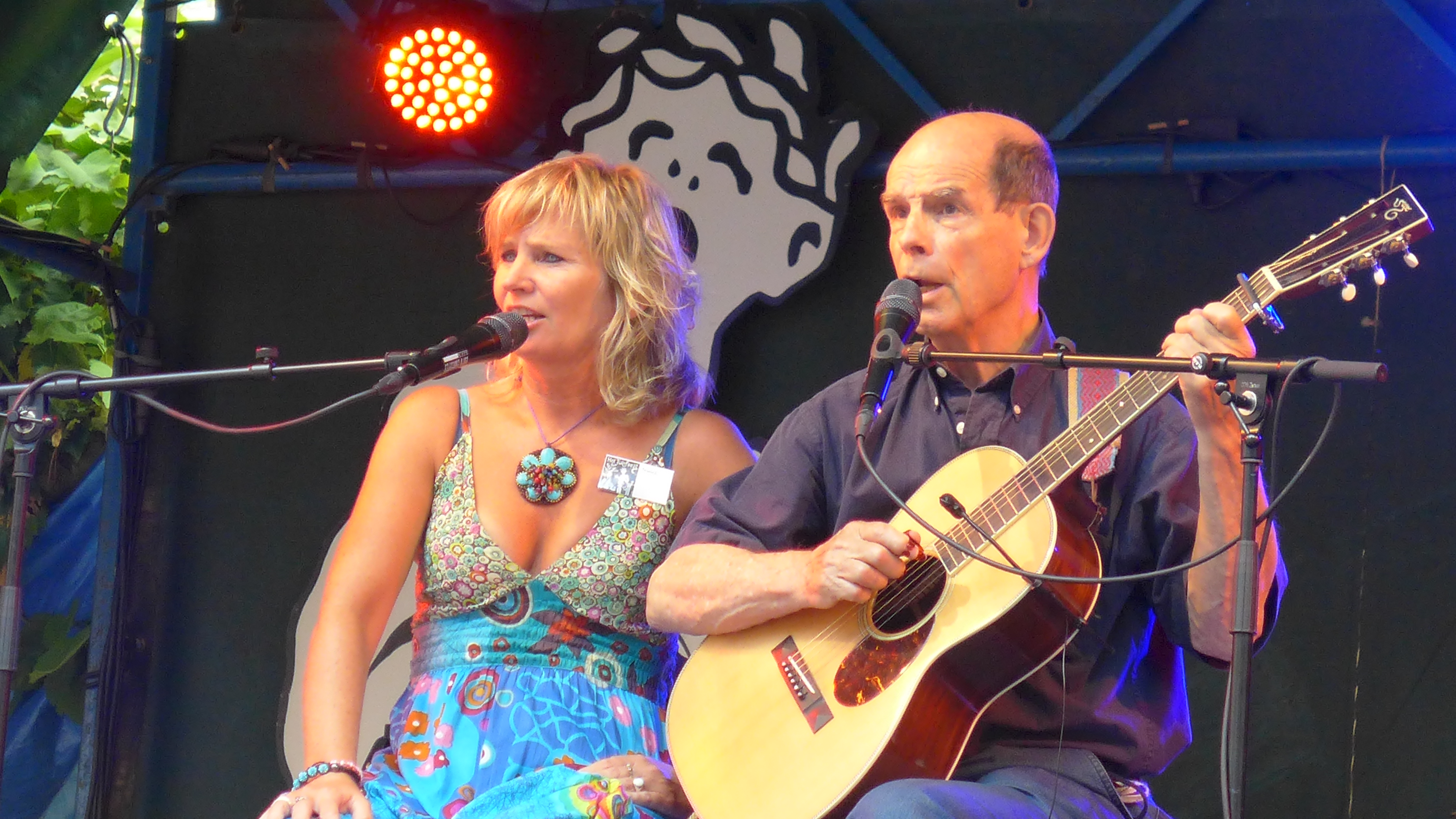 Joop Visser and Jessica van Noord are singing songs at the poetry festival 'Het Tuinfeest', Deventer, August 3 2013